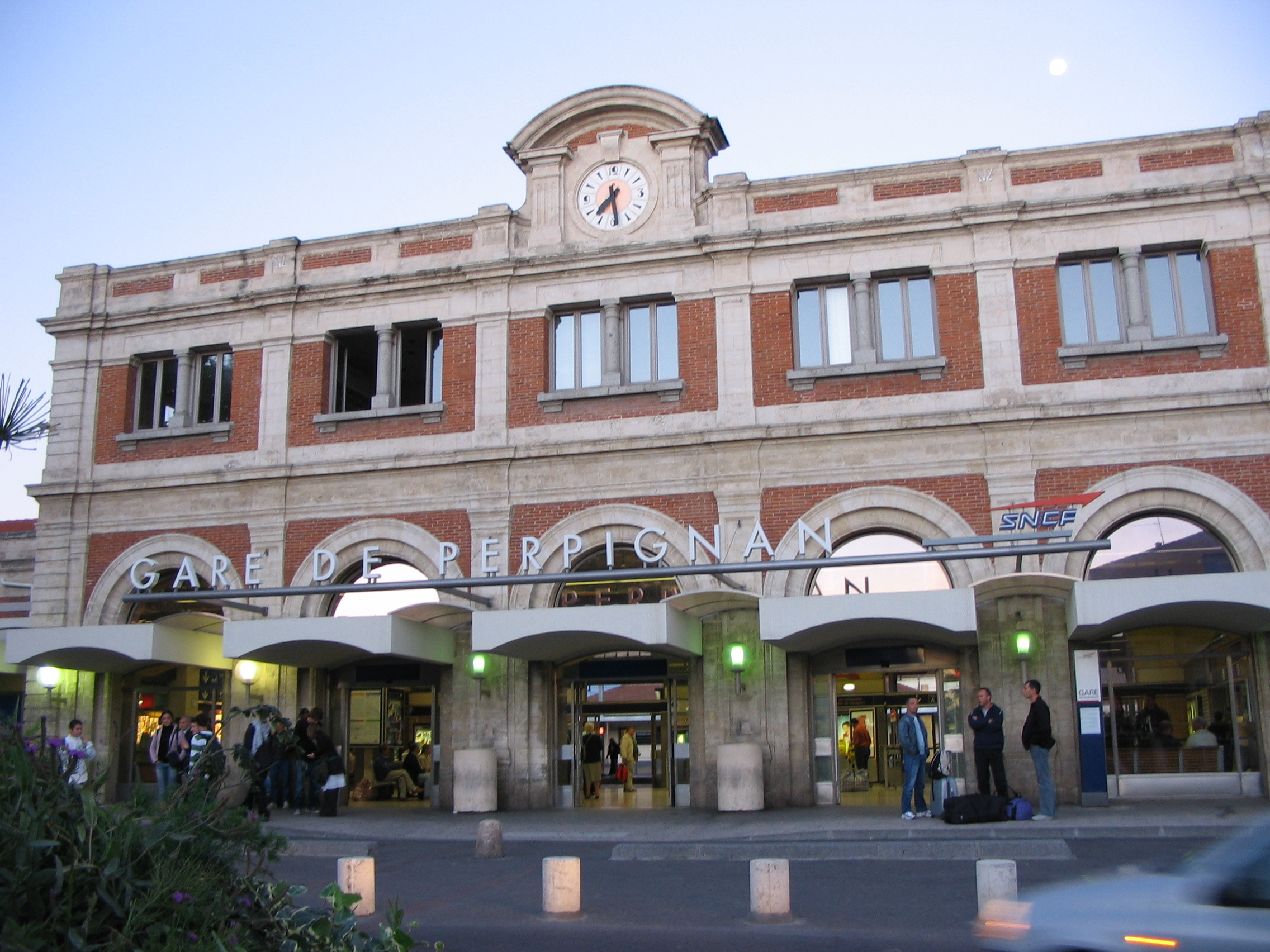 The train-station of Perpignan, France.